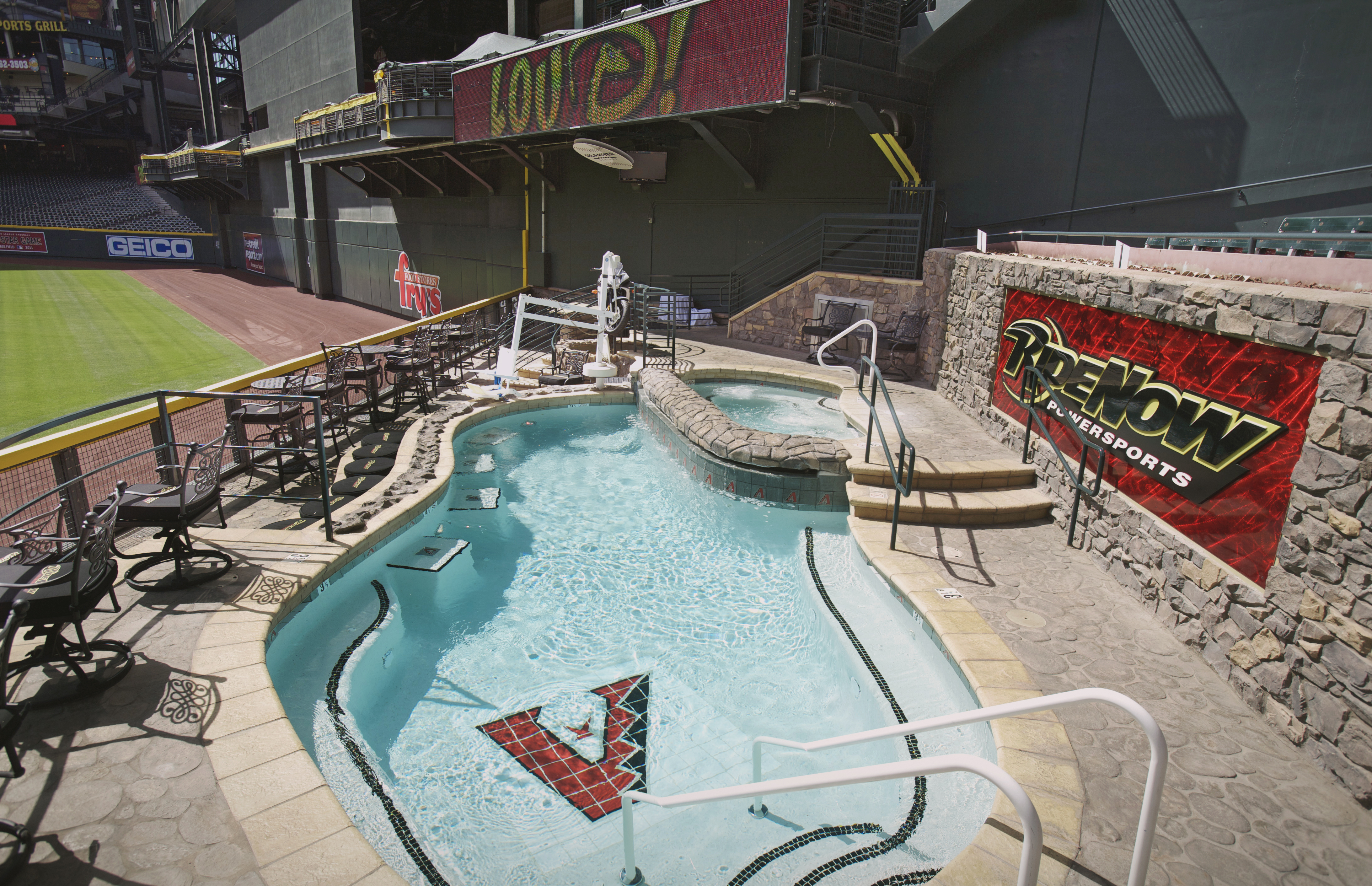 RideNow Powersports pool at Chase Field